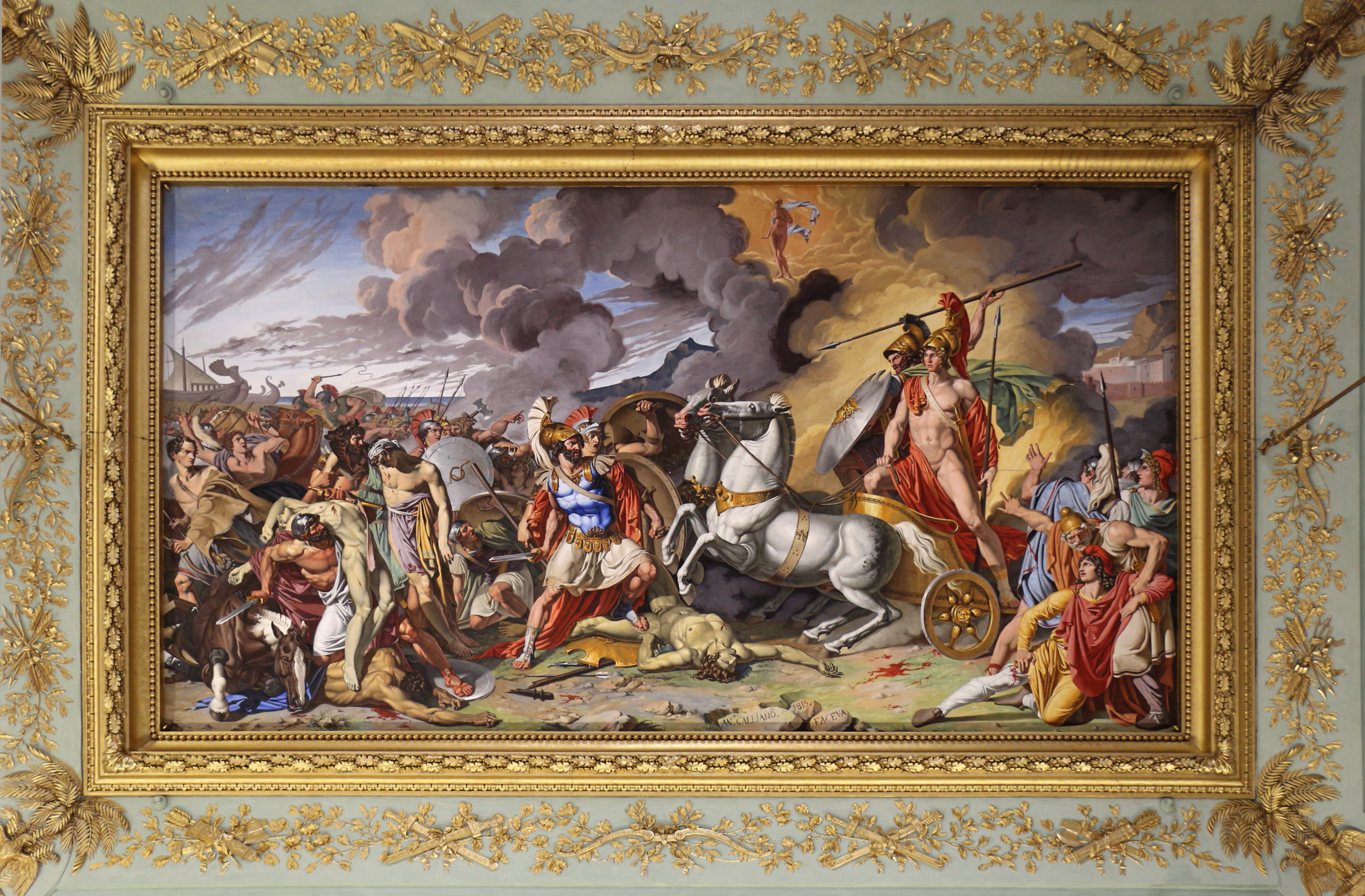 Palace of Caserta